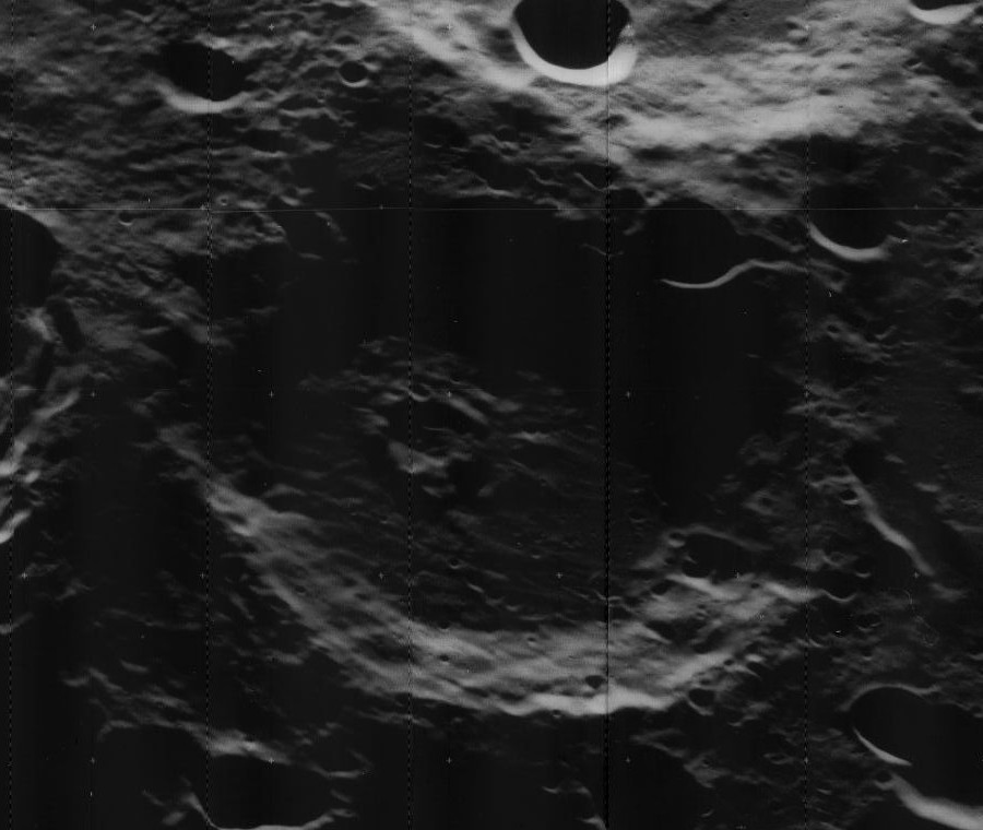 Oblique view of Berkner, on the far side of the moon, facing west.